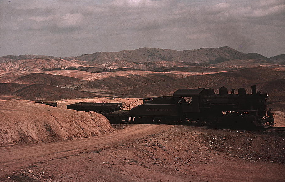 A train bringing copper ore out of the mines, Ducktown, Tenn. Fumes from smelting copper for sulfuric acid have destroyed all vegetation and eroded the land.